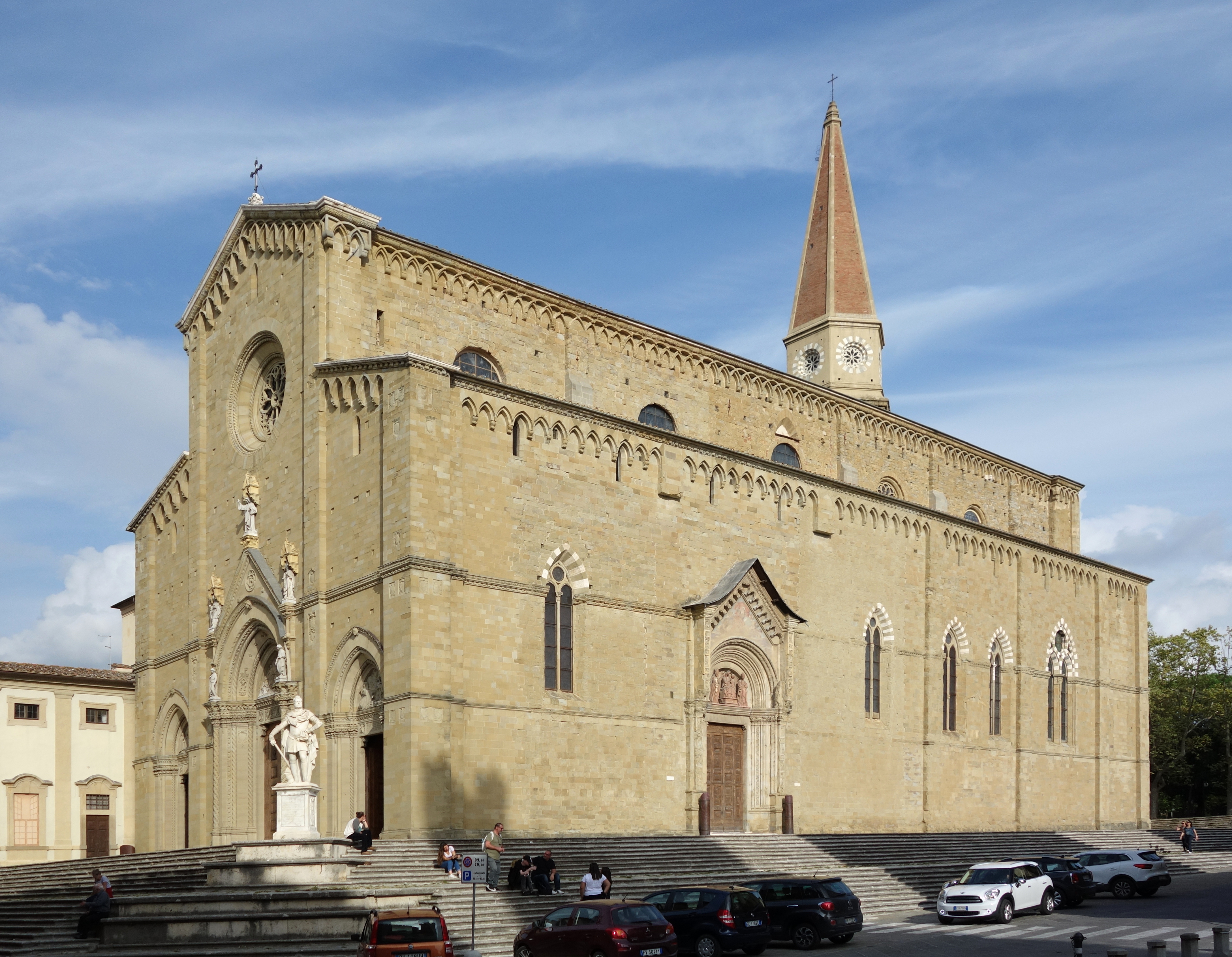 Arezzo Cathedral as seen from the Piazza della Liberta